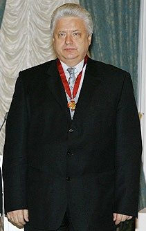 THE KREMLIN, MOSCOW. Head of the State Duma Committee for Veterans\' Affairs Nikolai Kovalev.